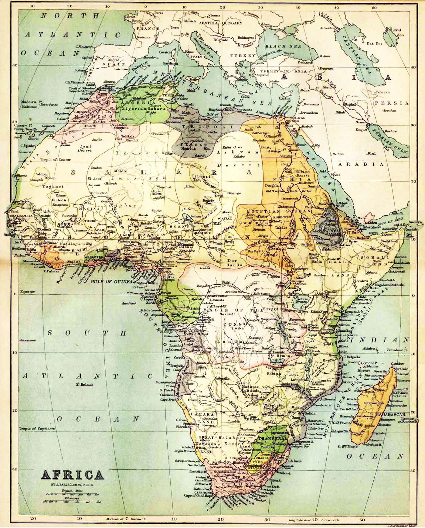 Historical map of Africa by J. Bartholomew, F.R.G.S. John Bartholomew (1831 – 1893), a Scottish cartographer, born in Edinburgh. The image shows a political map with the knowledge about Africa in the year 1885.